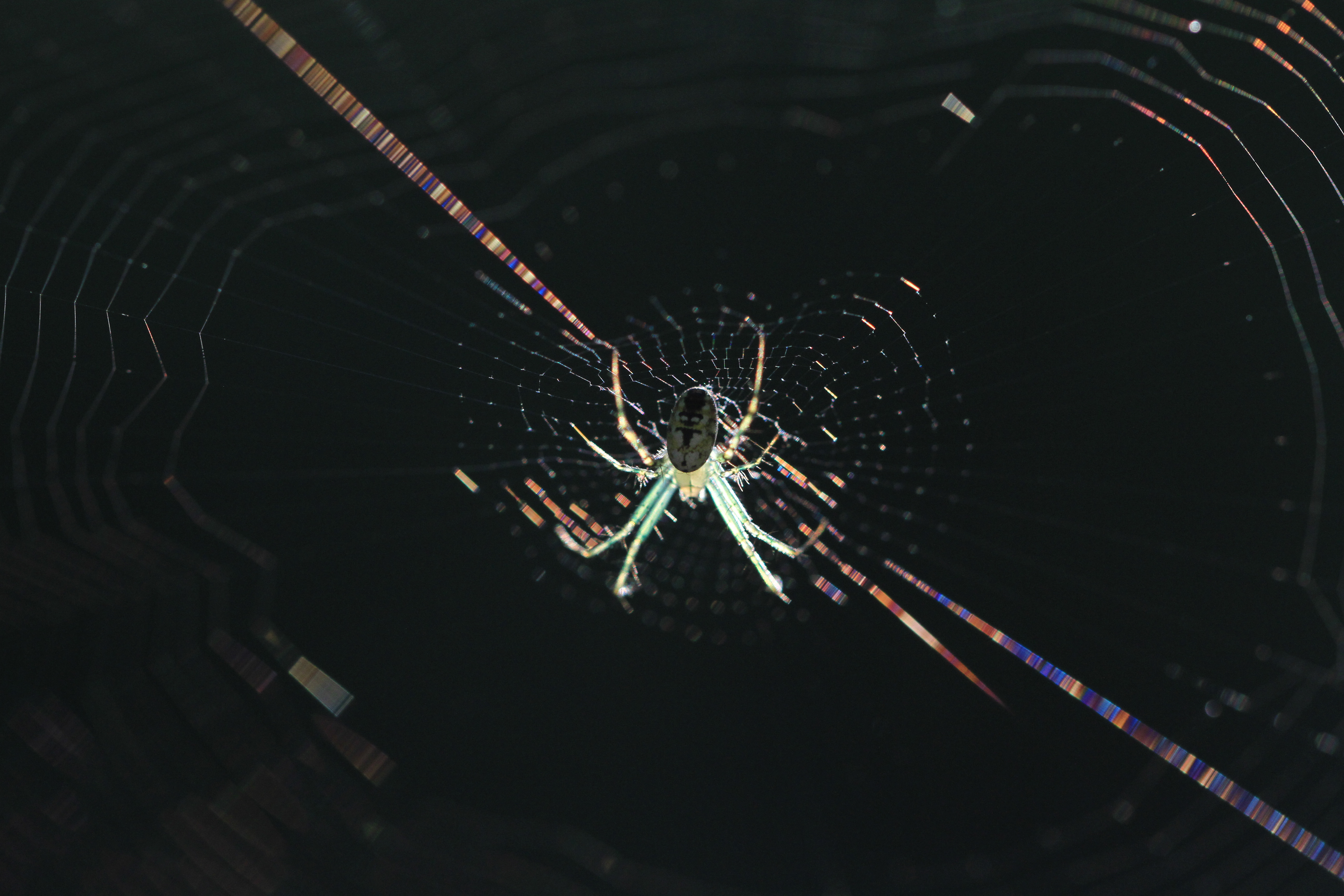 Mangora spiculata, Julie Metz Wetlands, Woodbridge, Virginia. taken against the setting sun